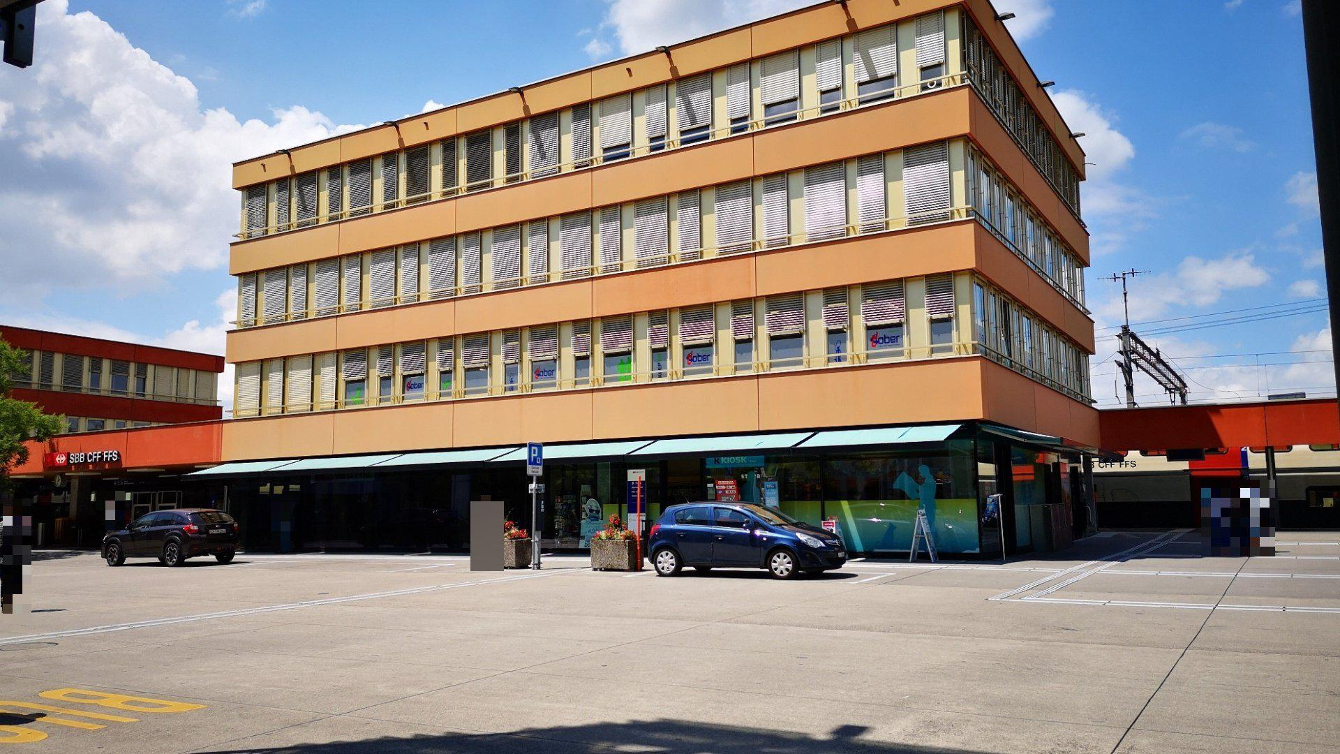 Baar railway station in Baar, Switzerland.